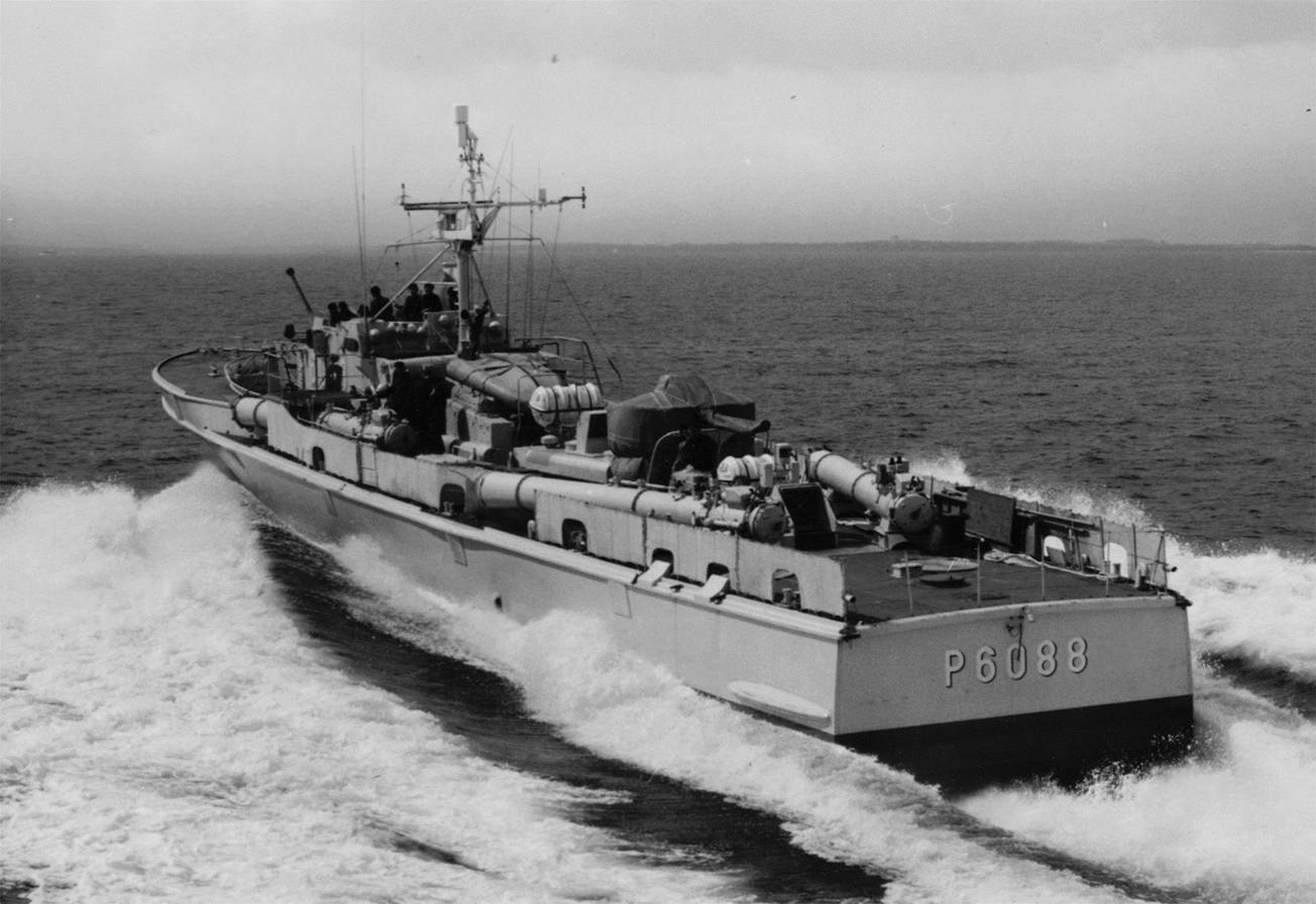 The Type 140 Jaguar class fast attack craft is an evolution of the German torpedo boats (E boats) of World War II. Sa'ar 3 class ("Cherbourg") is a class of missile boats built in Cherbourg, France at the Amiot Shipyard based on Israeli Navy modification of the German Navy's Jaguar class fast attack craft. "5.SG" means fast patrol boat squadron 5, Elster and Dommel are boats from these squadron.